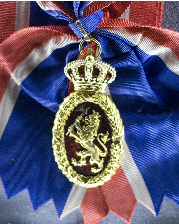 The Order of the Norwegian Lion was a Norwegian order of knighthood established on 21 January 1904. No appointments were made to the orde after december 1904.